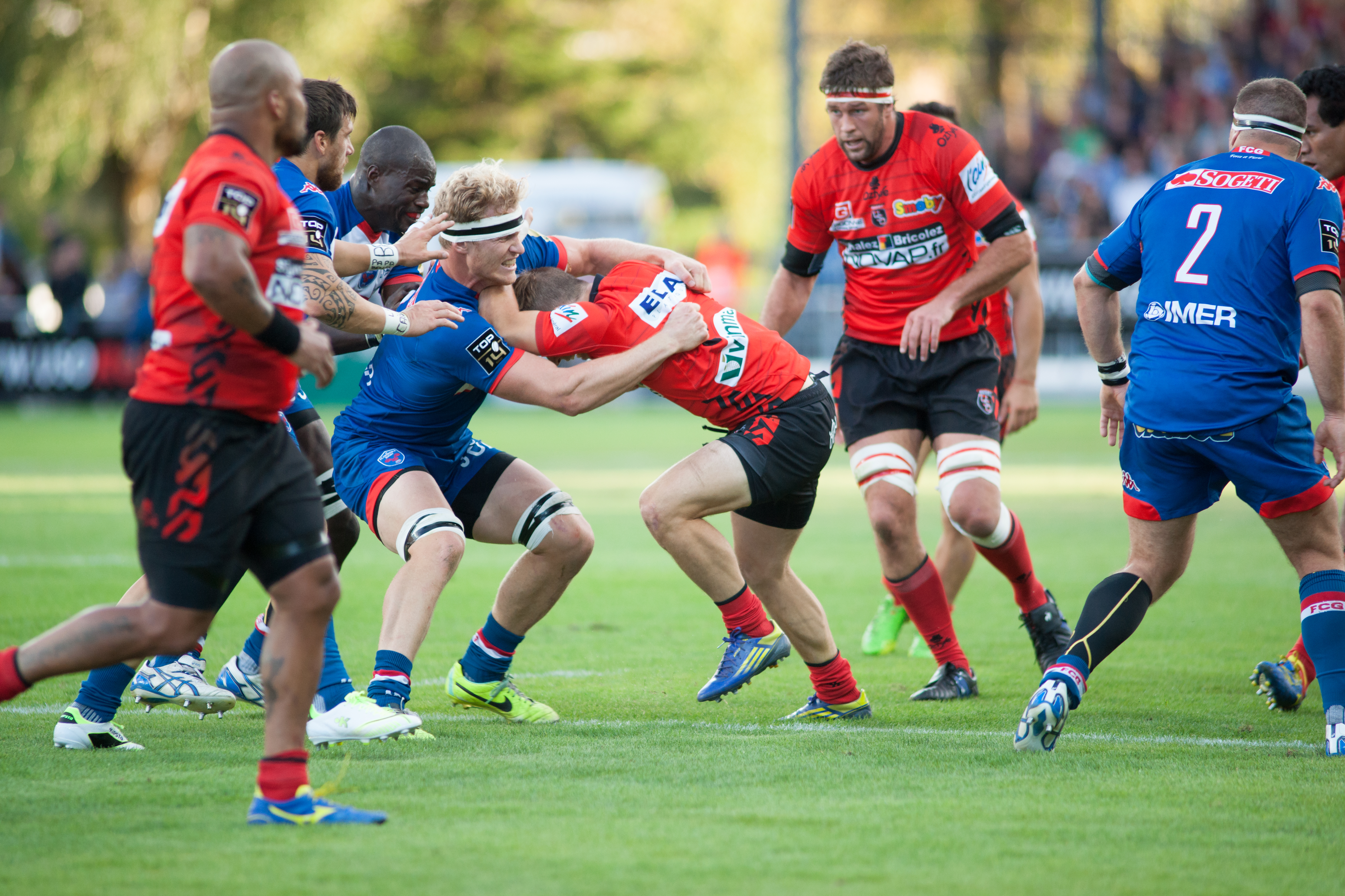 The making of this document was supported by Wikimedia CH. (Submit your project!) For all the files concerned, please see the category Supported by Wikimedia CH. Oyonnax vs. Grenoble, 19th September 2014